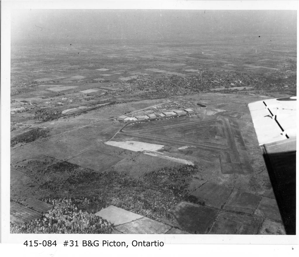 Aerial ot RCAF Station Picton, Royal Air Force No. 31 Bombing and Gunnery School, Picton, Ontario, Canada.